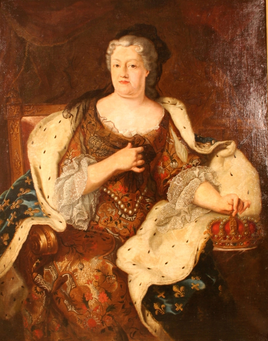 Élisabeth Charlotte d'Orléans (1676-1744) as Duchess of Lorraine